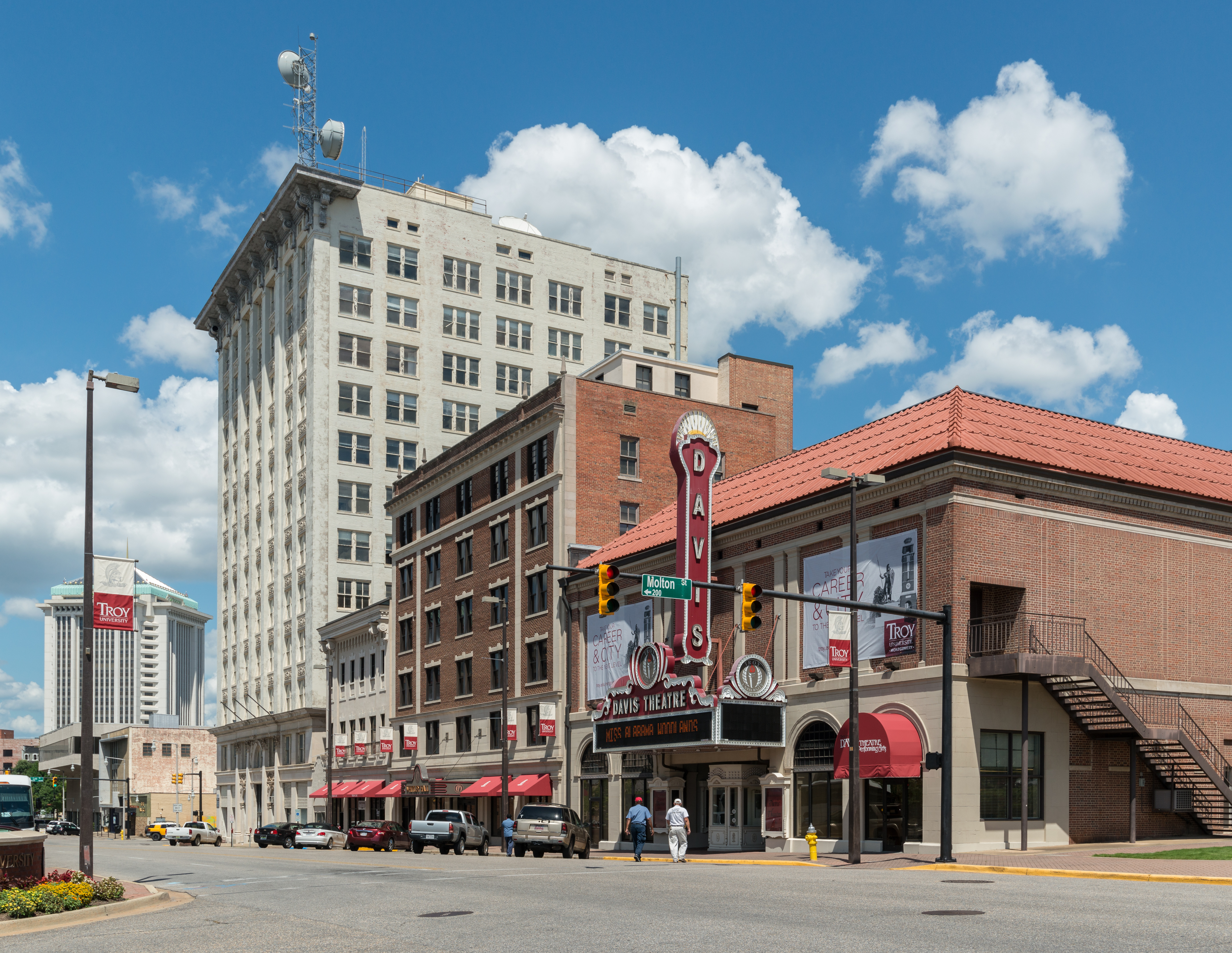 A west view of Troy University buildings including Davis Theatre, Montgomery, Alabama